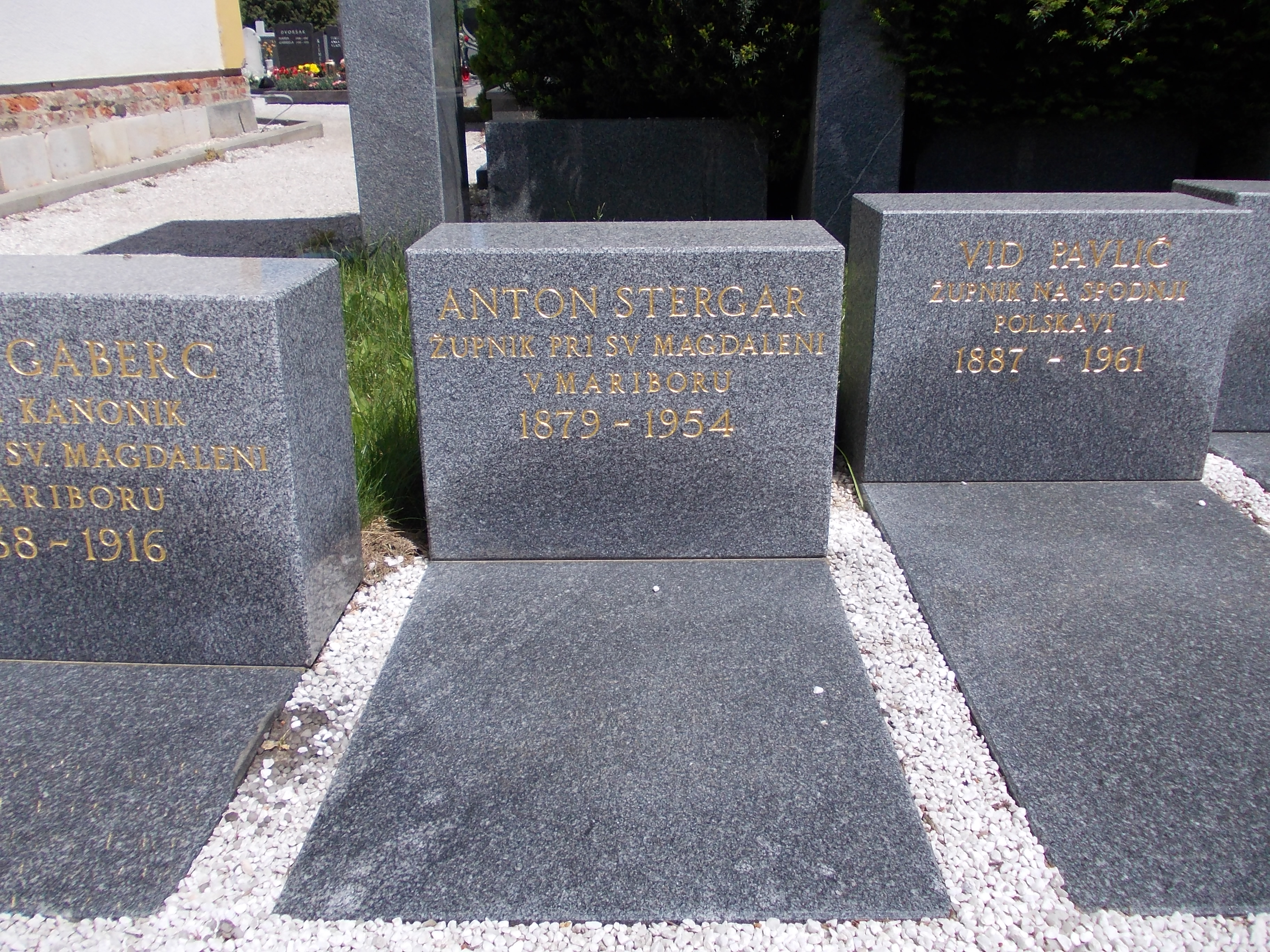 Pobrežje cemetery